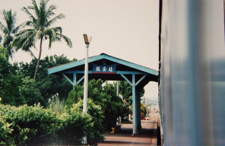 Szen-ann station on the Fang-liao line in 1997.